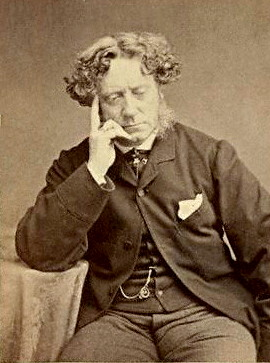 Sir (Joseph) Noël Paton, photograph (90 mm x 59 mm), National Portrait Gallery, London No. NPG Ax39841.